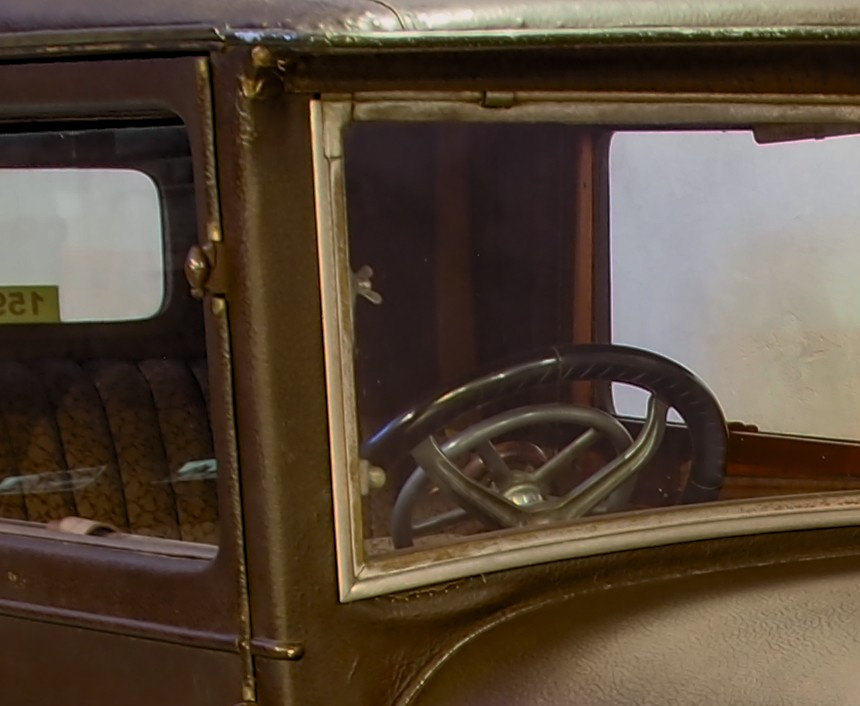 Amédée BOLLÉE Fils Type F gear shift ring (mounted inside steering wheel)